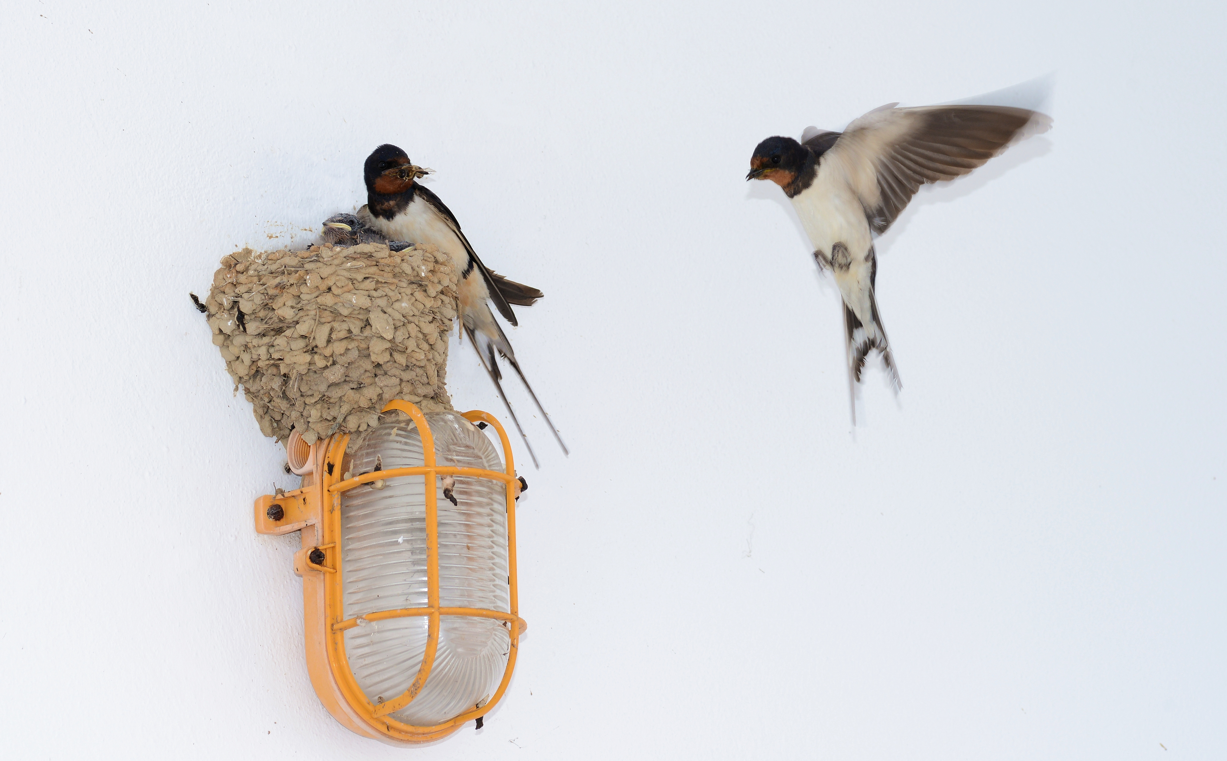 Juvenile Barn Swallws (Hirundo rustica) being fed in the nest. Porto Covo, Portugal